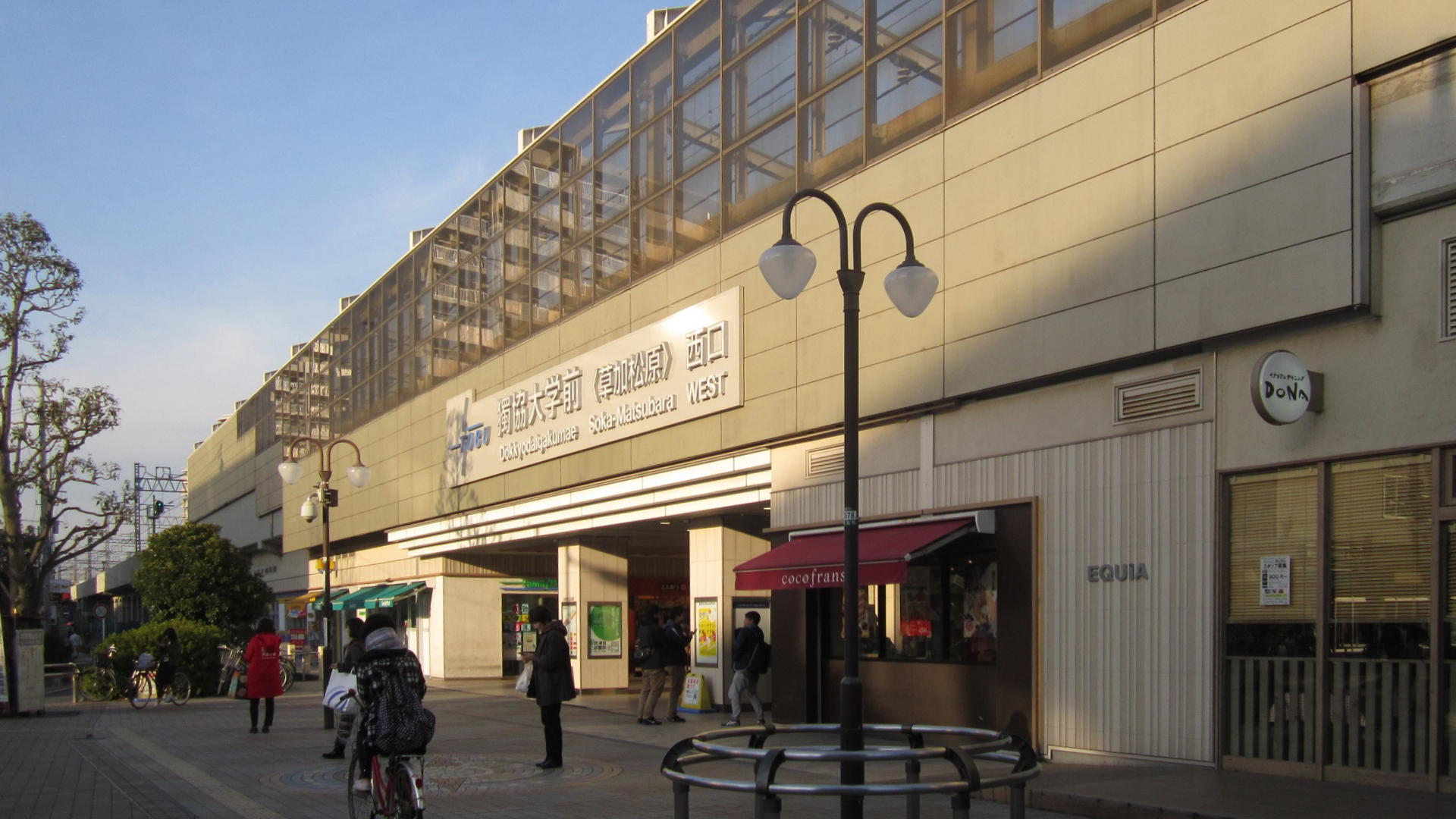 The west side of Dokkyodaigakumae Station in Saitama Prefecture, Japan